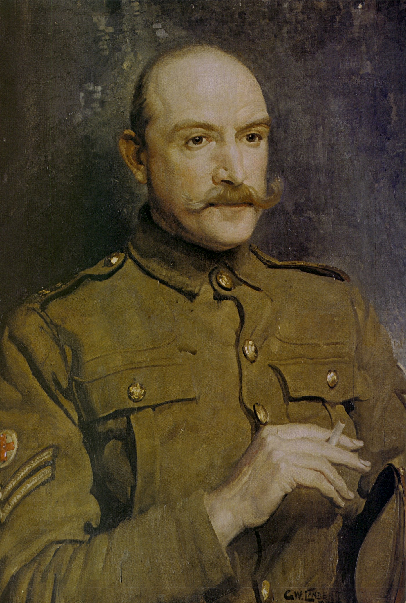 Painted while Streeton was a corporal in the Royal Army Medical Corps in London.